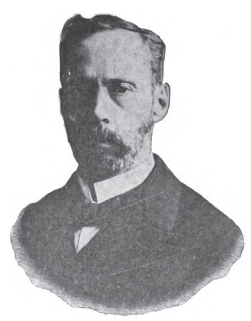 An Ohio politician named John M. Sheets